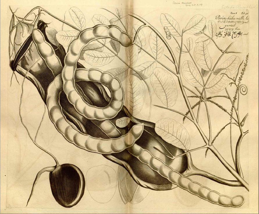 Hortus Indicus Malabaricus :continens regni Malabarici apud Indos cereberrimi onmis generis plantas rariores, Latinas, Malabaricis, Arabicis, Brachmanum charactareibus hominibusque expressas ... /adornatus per Henricum van Rheede